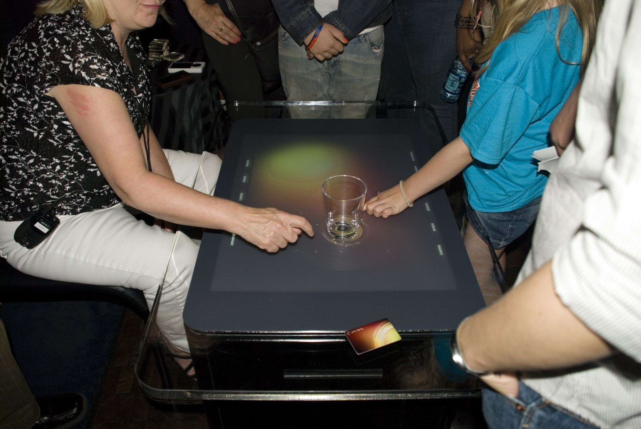 Place tagged drinks and it gives you advertisements and such. Subtle.